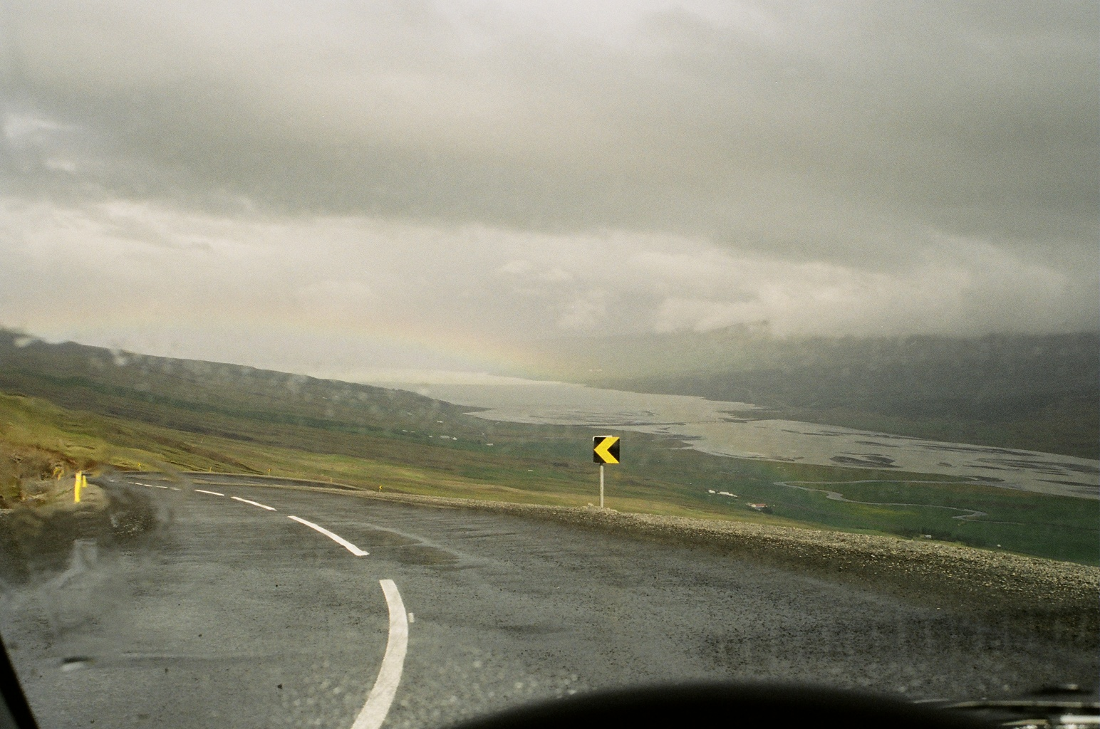 Lagarfljót, Iceland